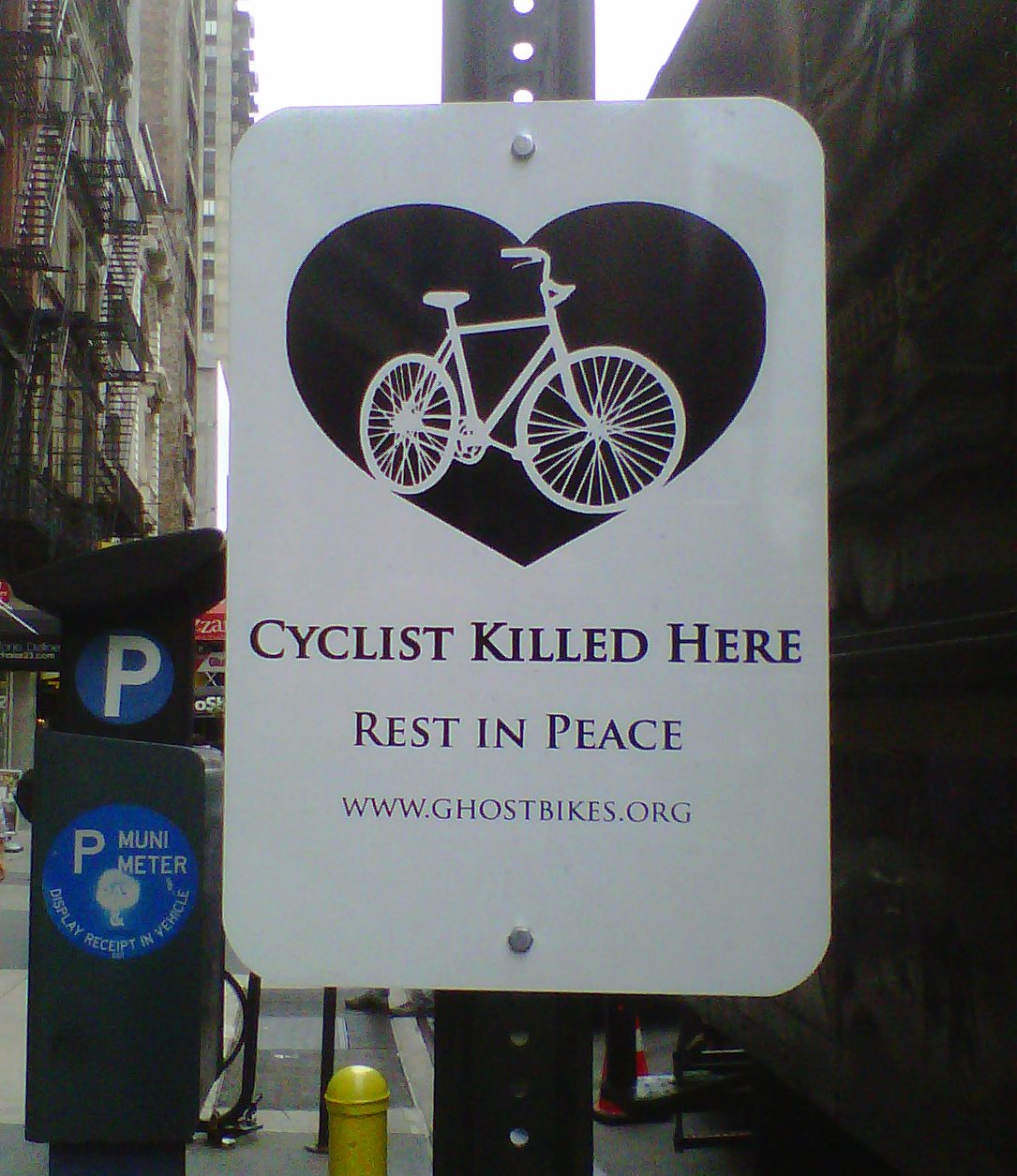 "Cyclist killed here" sign on East 23rd Street near Park Avenue South, southwest corner, posted by